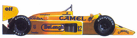 Lotus 99T Formula 1 car, was used in season 1987.